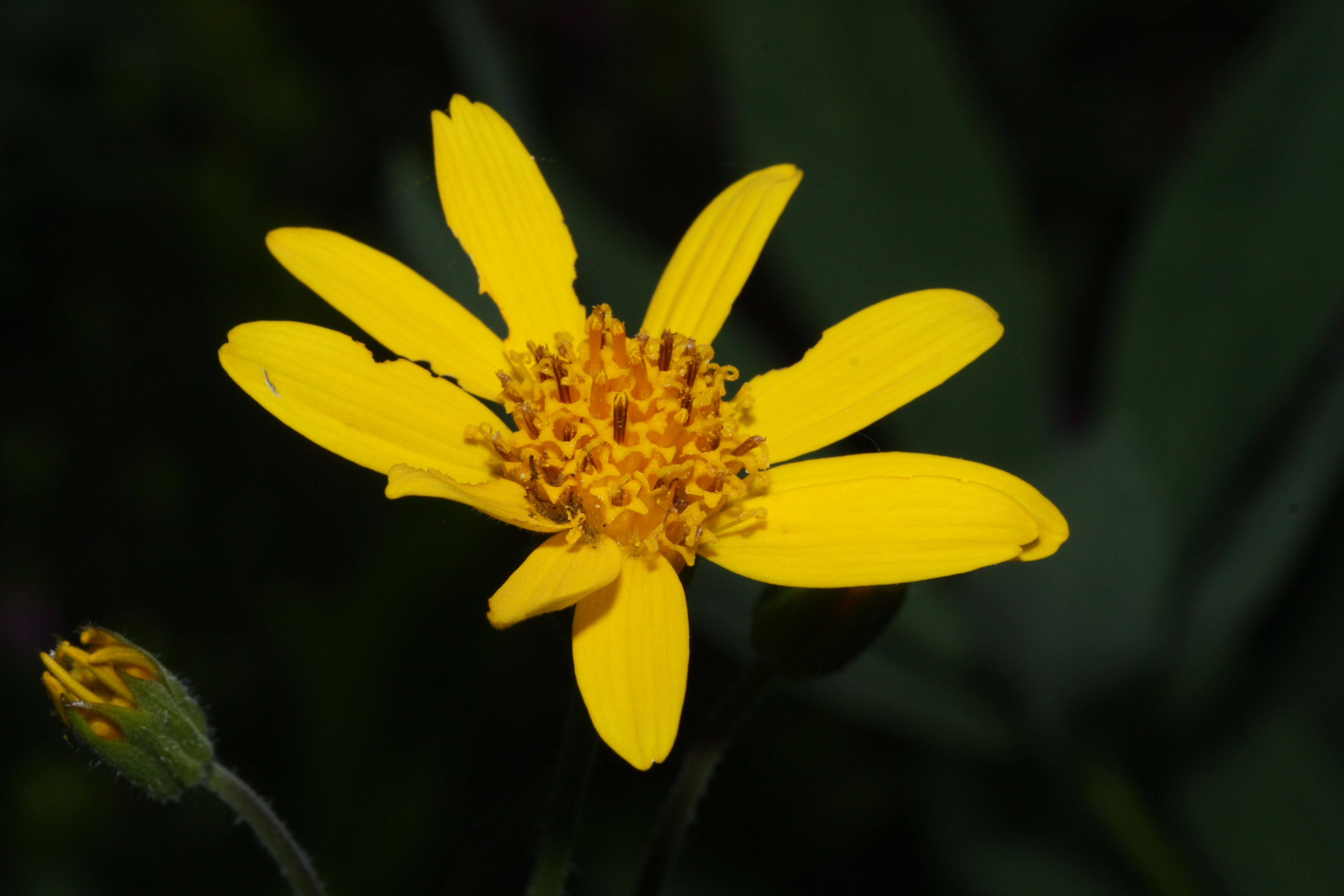 Broadleaf Arnica, Broad Leaved Arnica, Mountain Arnica, Daffodil Leopardbane